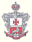 Coat of arms of the Norwegian Order of Freemasons. Given by King Oscar II on June 24, 1891. Copyright status: In the public domain. Norwegian copyright expires 70 years after death of author.